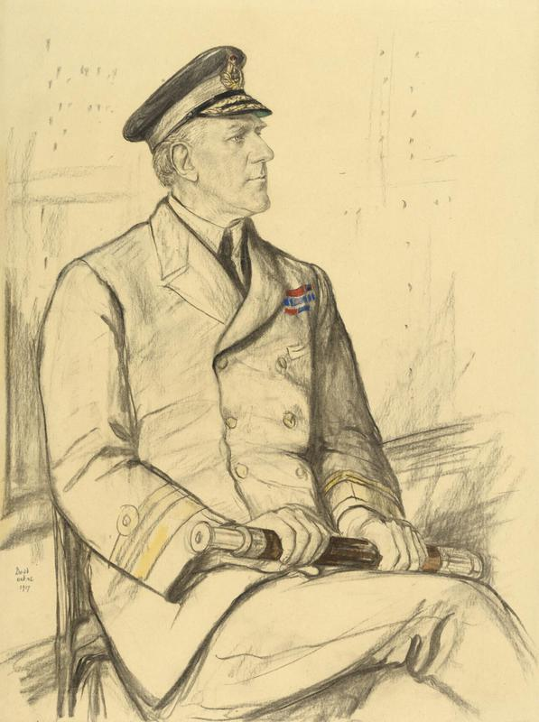 Vice-admiral Sir Dudley Rawson Stratford de Chair Kcb Mvo image: a three quarter length portrait of Vice-Admiral Sir Dudley de Chair in uniform and peaked cap, sitting on a chair and holding a telescope in both hands on his lap.